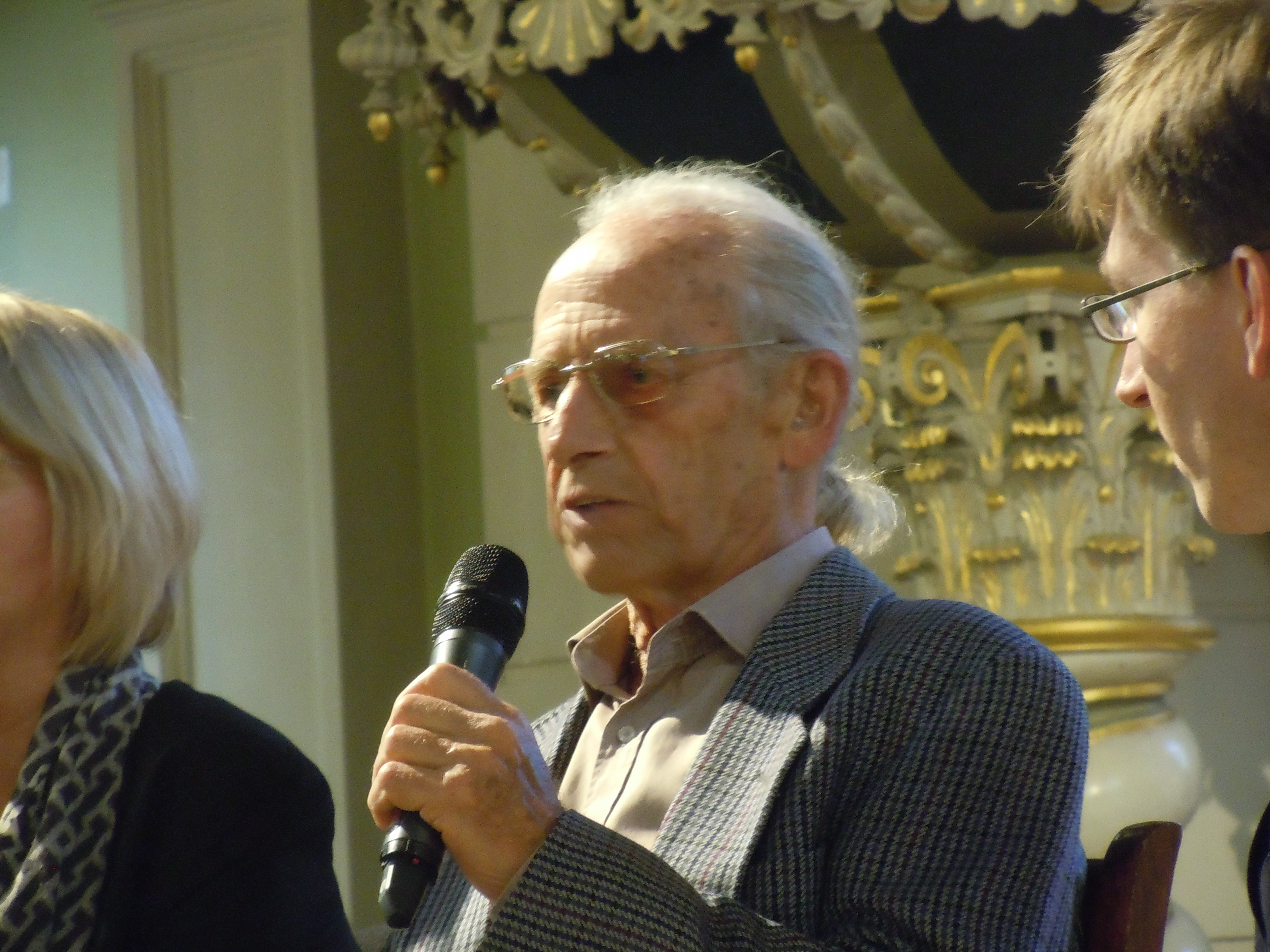 zvi Aviram, Holocaust-survivor